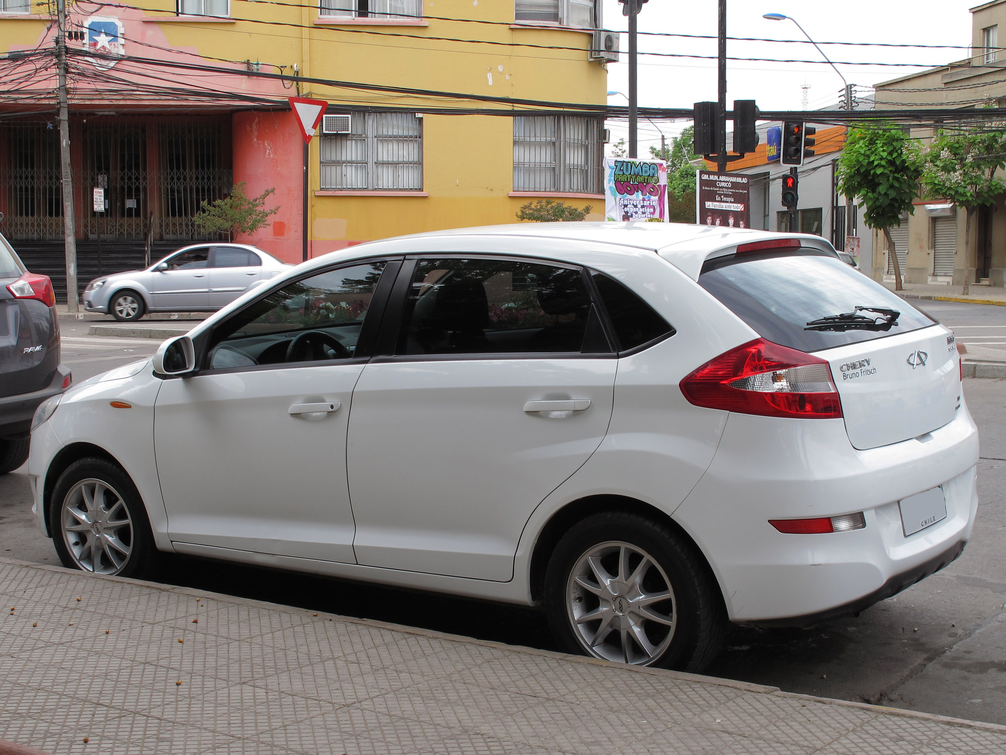 Chery Fulwin 1.5 GLX Sport 2012